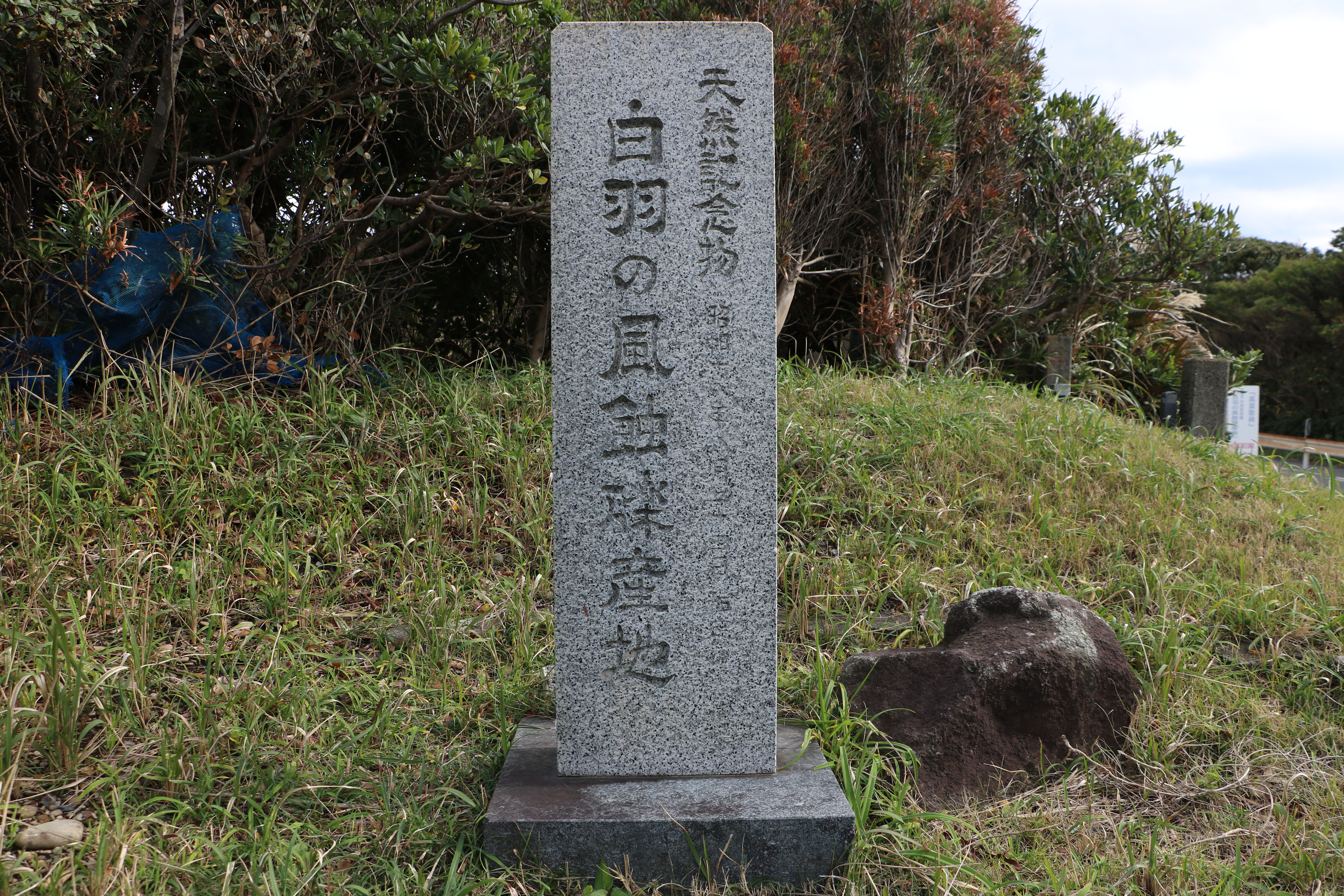 Stone monument in Shirowa district Dreikanter and Ventifacts production area, natural monument of Japan